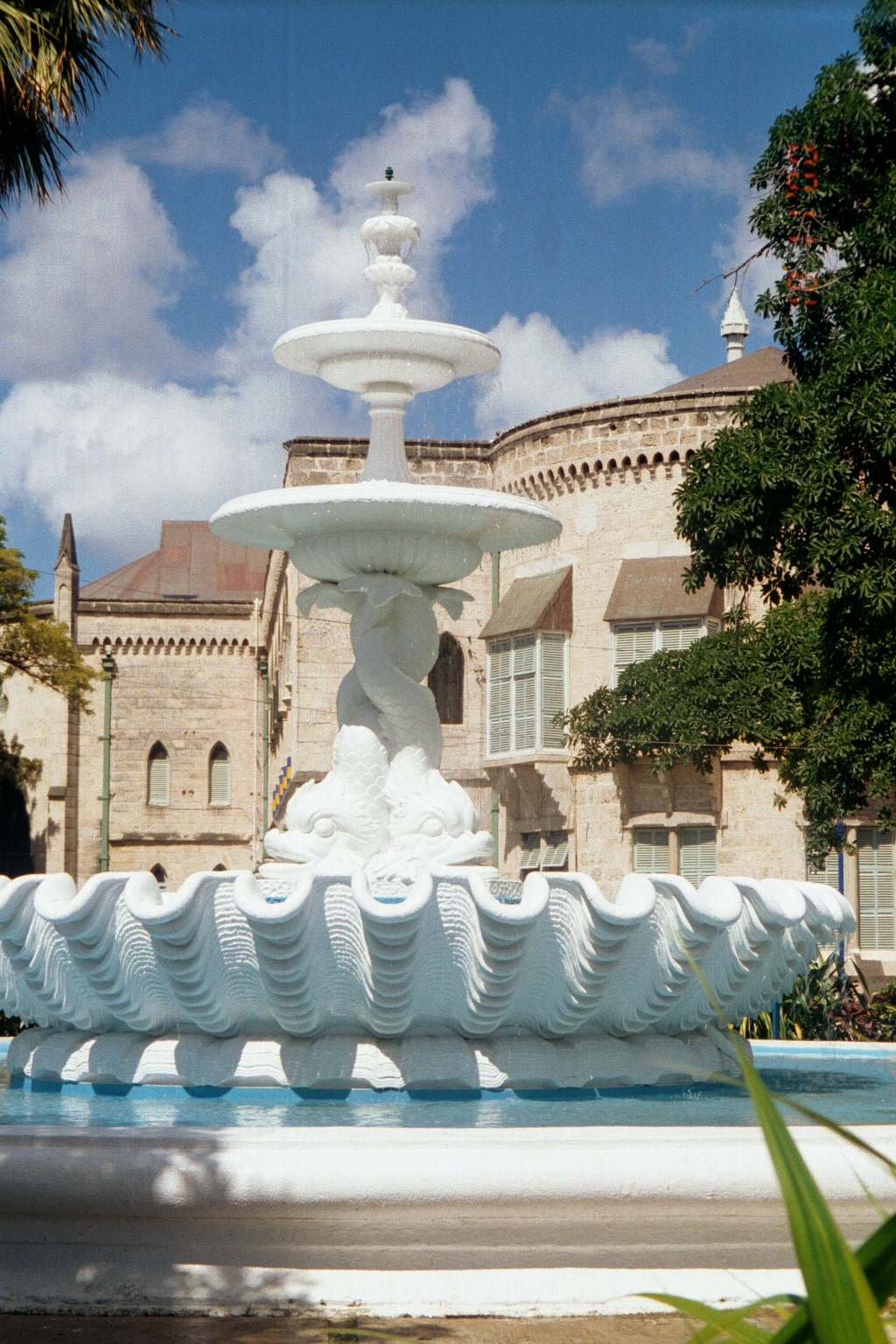 This fountain built in 1865, commemorates the introduction of piped water in Bridgetown. The plaque reads: "This fountain was erected by public subscription to commemorate the bringing of piped water to the City of Bridgetown on 29 March 1861. Opened by acting Governor - Robert Miller Mundy ESQ. on the 27th July 1865 who accepted custody of this fountain on behalf of the Government of Barbados." A plaque placed below the first reads: "The pump for this fountain was installed by the Barbados National Trust with a grant from the Advocate Company Limited. (Established 1895)"